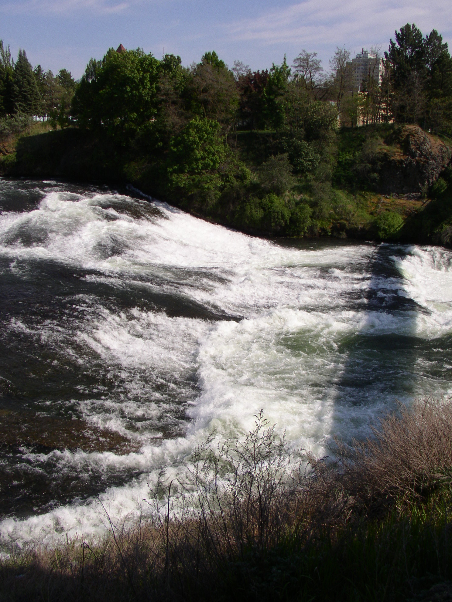 This is an example of a Hydraulic Jump of the Upper Spokane Falls. Will be included in the Hydraulic Jump article. Photo taken by uploader in May 2007. All rights released. Williamborg 04:20, 13 May 2007 (UTC)